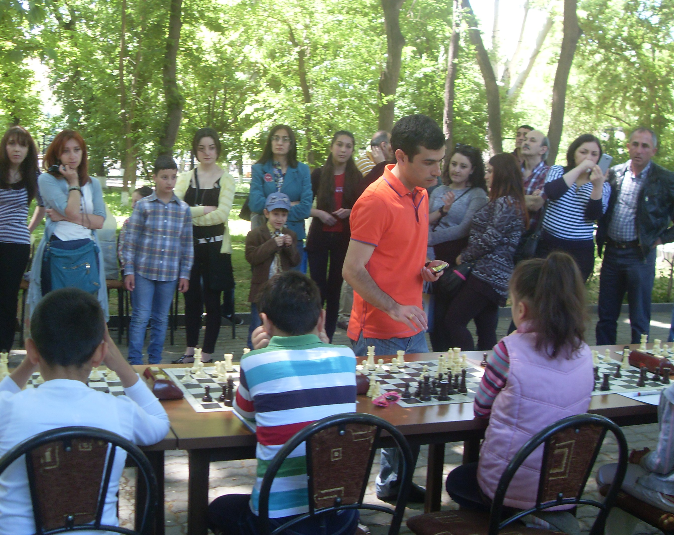 GM Gabriel Sargissian, Yerevan, 9th May 2016